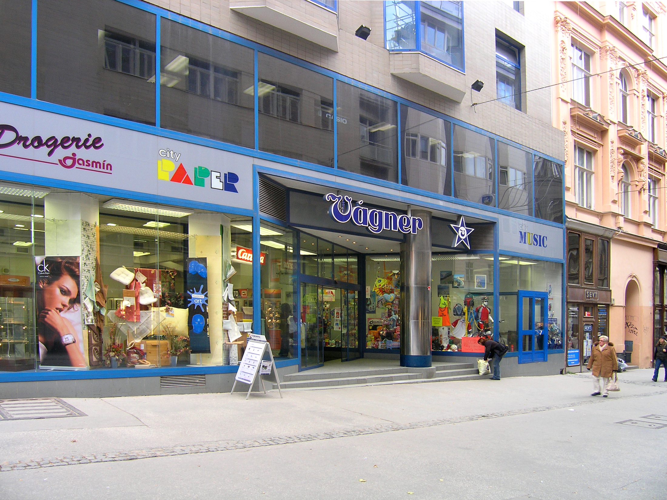 Vágner department store in Česká street in Brno, Czech Republic